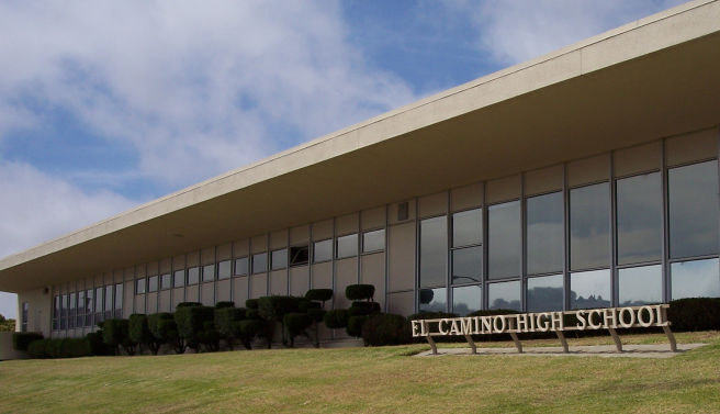 taken by Zedla 03:17, 20 August 2006 (UTC) subject: El Camino High School, South San Francisco, California, front